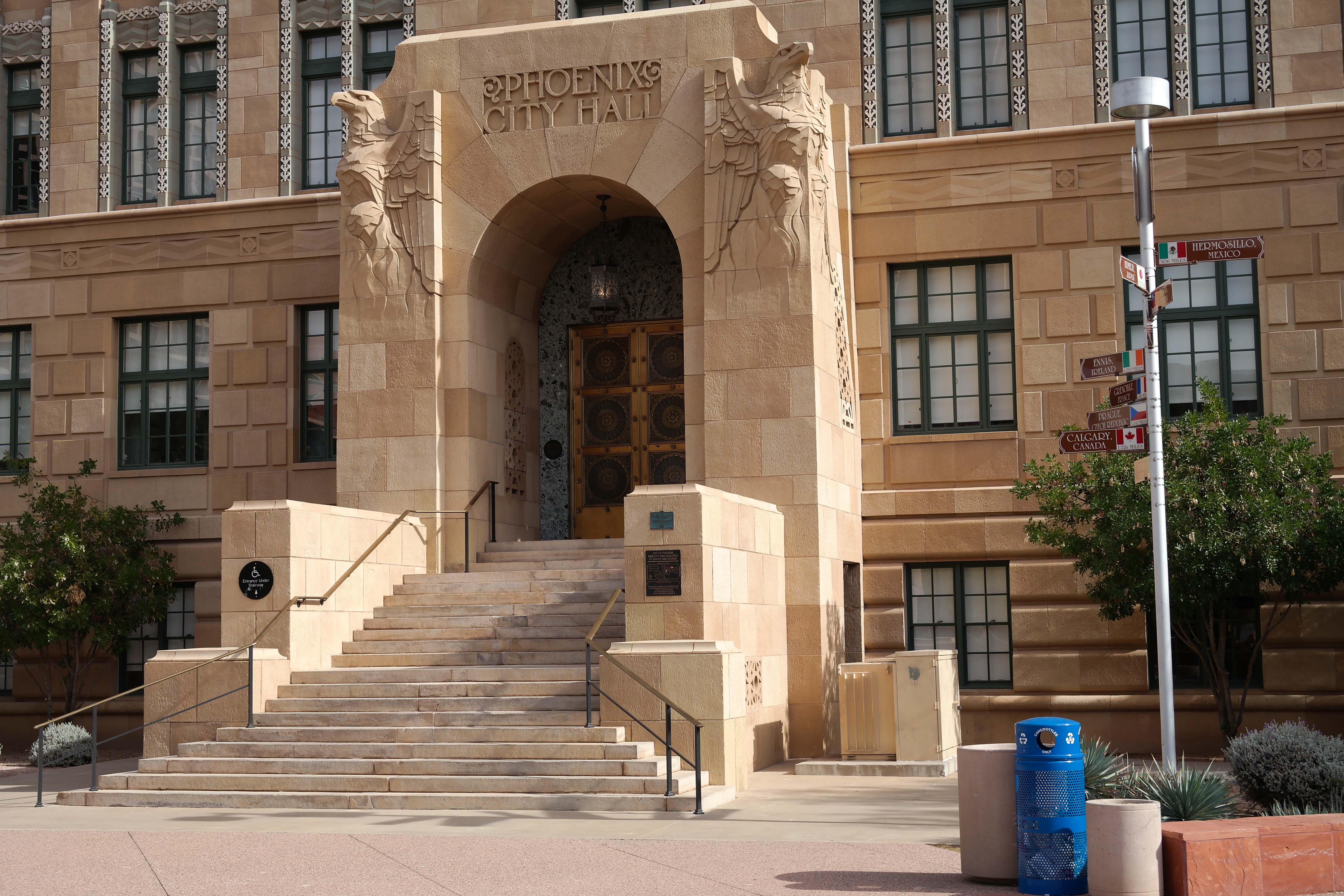 Part of the County-City Administration Building, NRHP 88003237